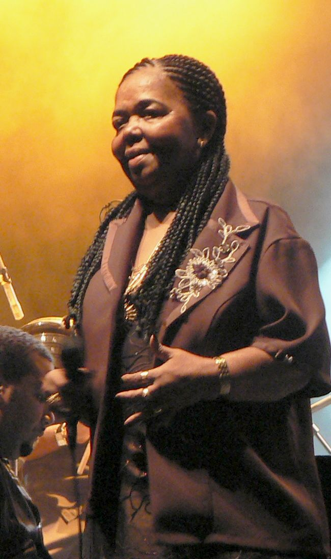 Cesária Évora in concert (14. November 2009) at the Rockhal of Esch-sur-Alzette (Luxembourg)